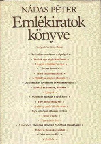 A book of memories first edition cover.